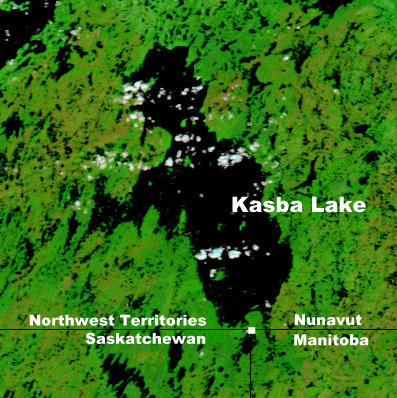 Portion of NASA map showing Kasba Lake in the Northwest Territories and Nunavut near the Saskatchewan and Manitoba borders. (Captions have been added by Kayoty)